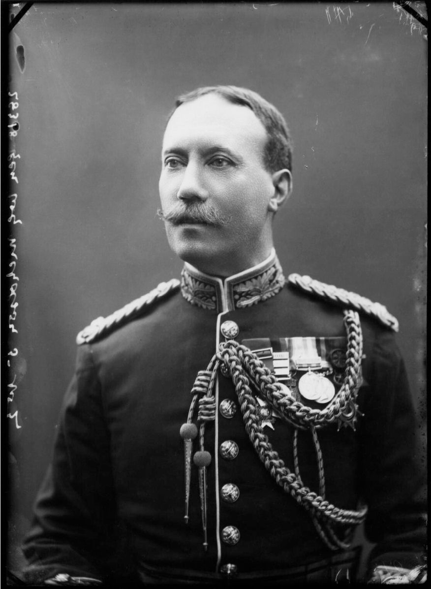 William Nicholson, 1st Baron Nicholson, 1898.